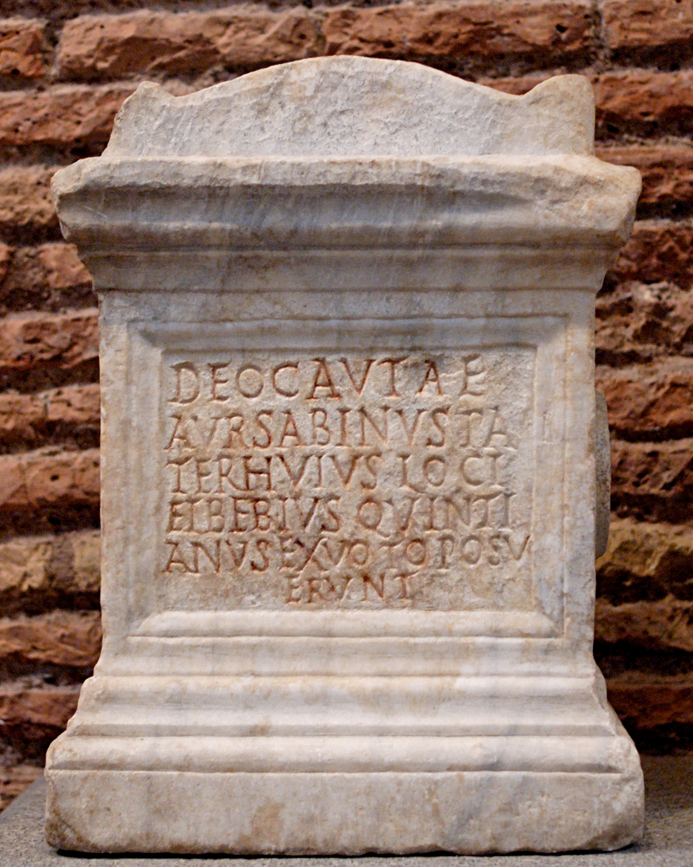 Altar to Cautes and Cautopates, divine attendants of Mithras, symbolizing respectively dawn and sunset. Dedicated by Aurelius Sabinus, pater of the mithraeum of the castra peregrina of the Imperial horseguards (equites singulares). Marble, reign of Commodus (180-192 CE). From the area of S. Stefano Rotondo, Rome.